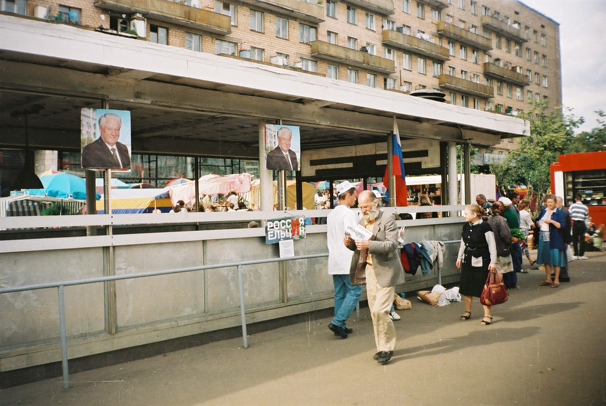 Entrance to the "Preobrazhenskaia Ploshad" metro station in Moscow during the electoral campaign of presidential elections during which Boris Yeltsin has been re-elected for his second term.